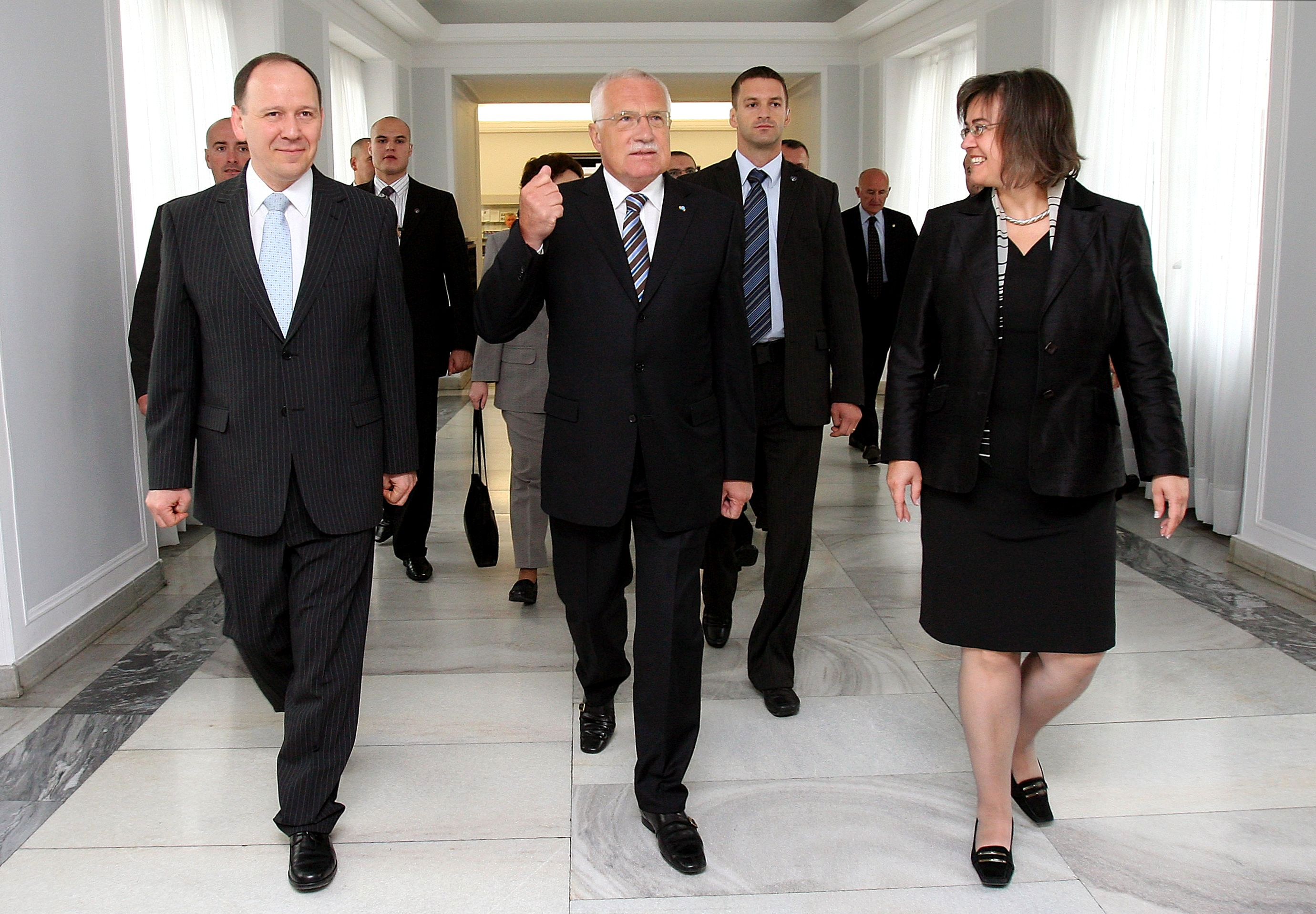 President of the Czech Republic Valclav Klaus in the Polish Senate